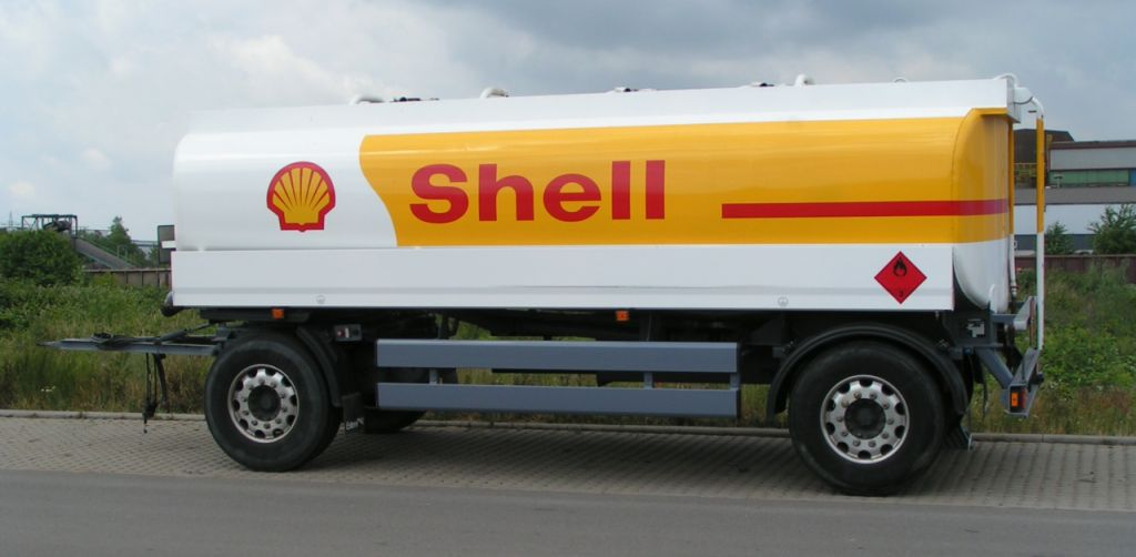 A fuel trailer photographed in Trier.